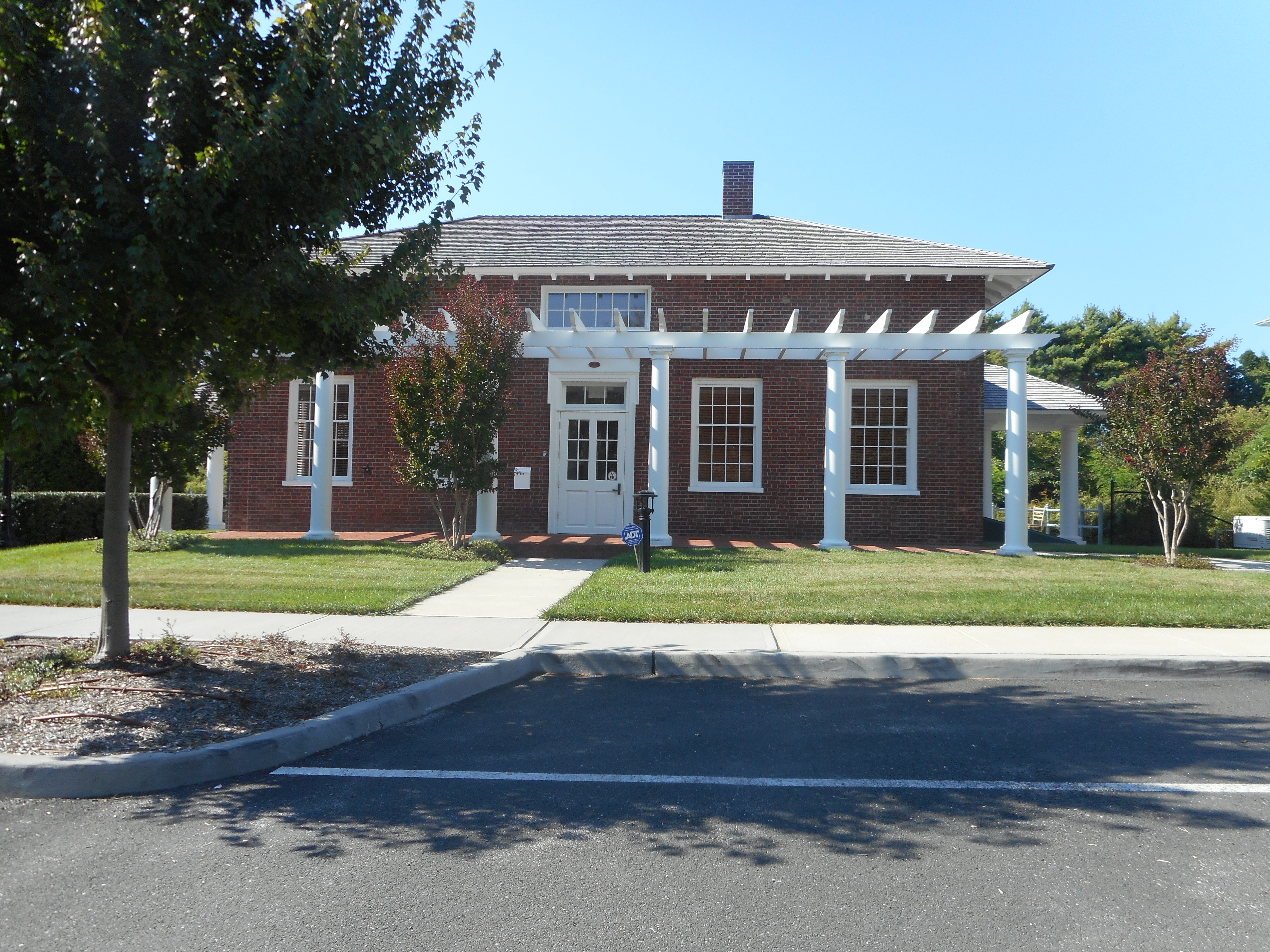 The former Water Mill LIRR station, currently an office for a group of condominiums in Water Mill, New York.